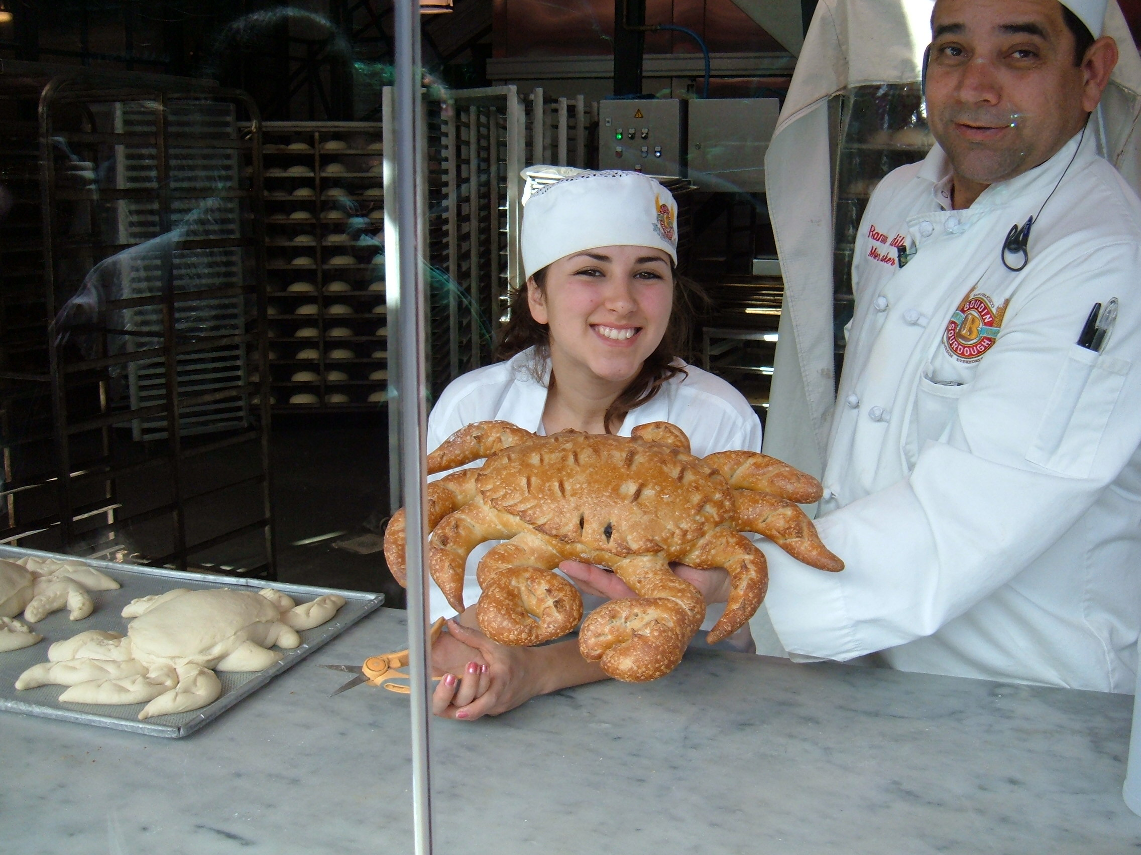 One of the bakers at Boudin Bakery in Fisherman's Wharf, San Francisco shows off bread baked into the form of a crab.